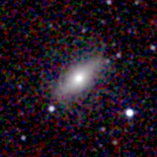 2MASS image of NGC 4683.